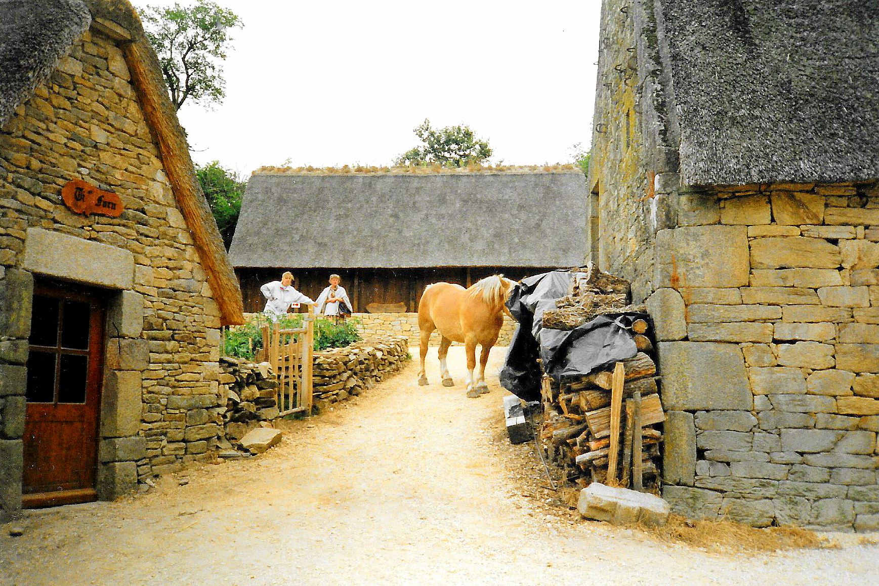 Village of Poul-Fétan (France, August 1994)